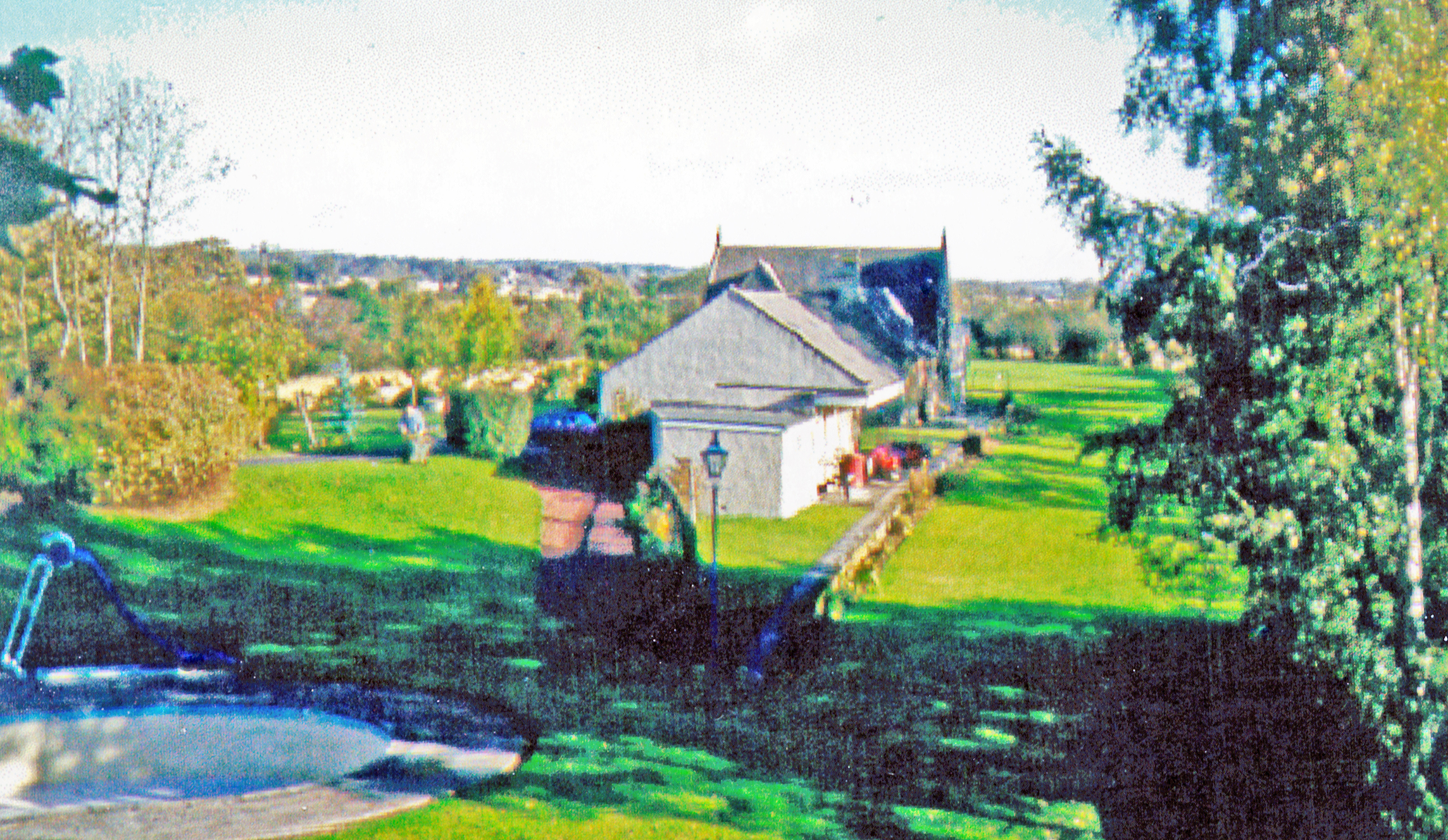 Converted remains of Humshaugh station, 1981View SE, towards Hexham, in the North Tyne valley on the ex-NBR former Border Counties line from Bellingham and Riccarton Junction, closed to passengers 15/10/56, to goods 1/9/58. The new owners have done a good job with preservation.